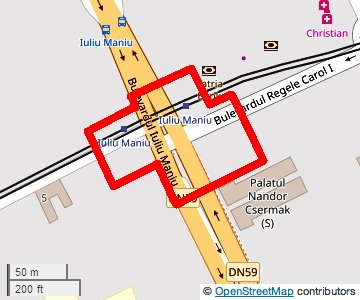 Map of heritage site "Ansamblul urban V", Timișoara, Romania